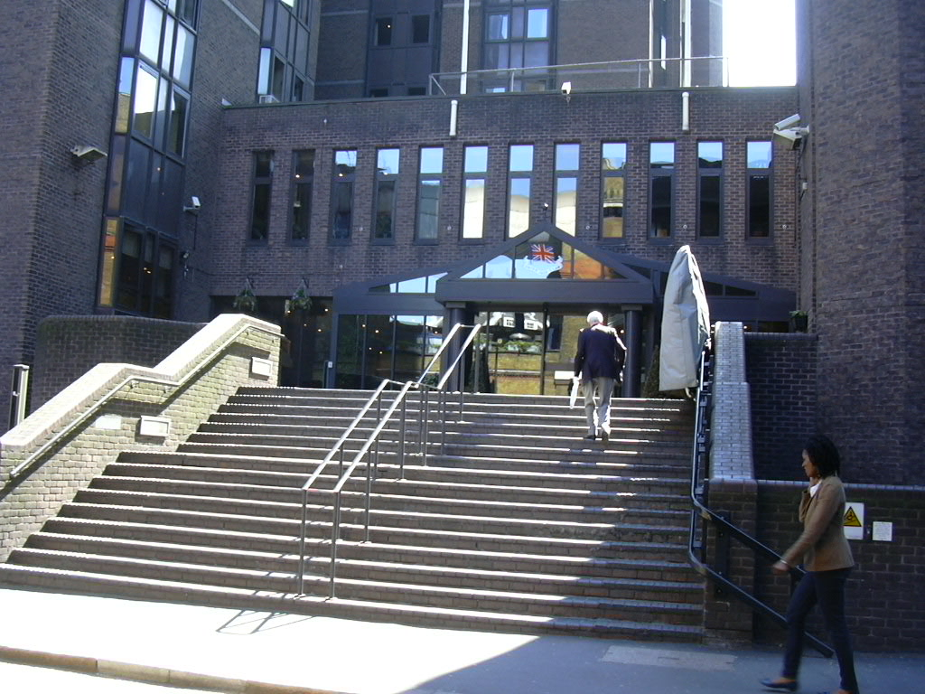 Photo of the Union Jack Club (in London SE1) taken by myself in April 2007. I hereby release it into the public domain.